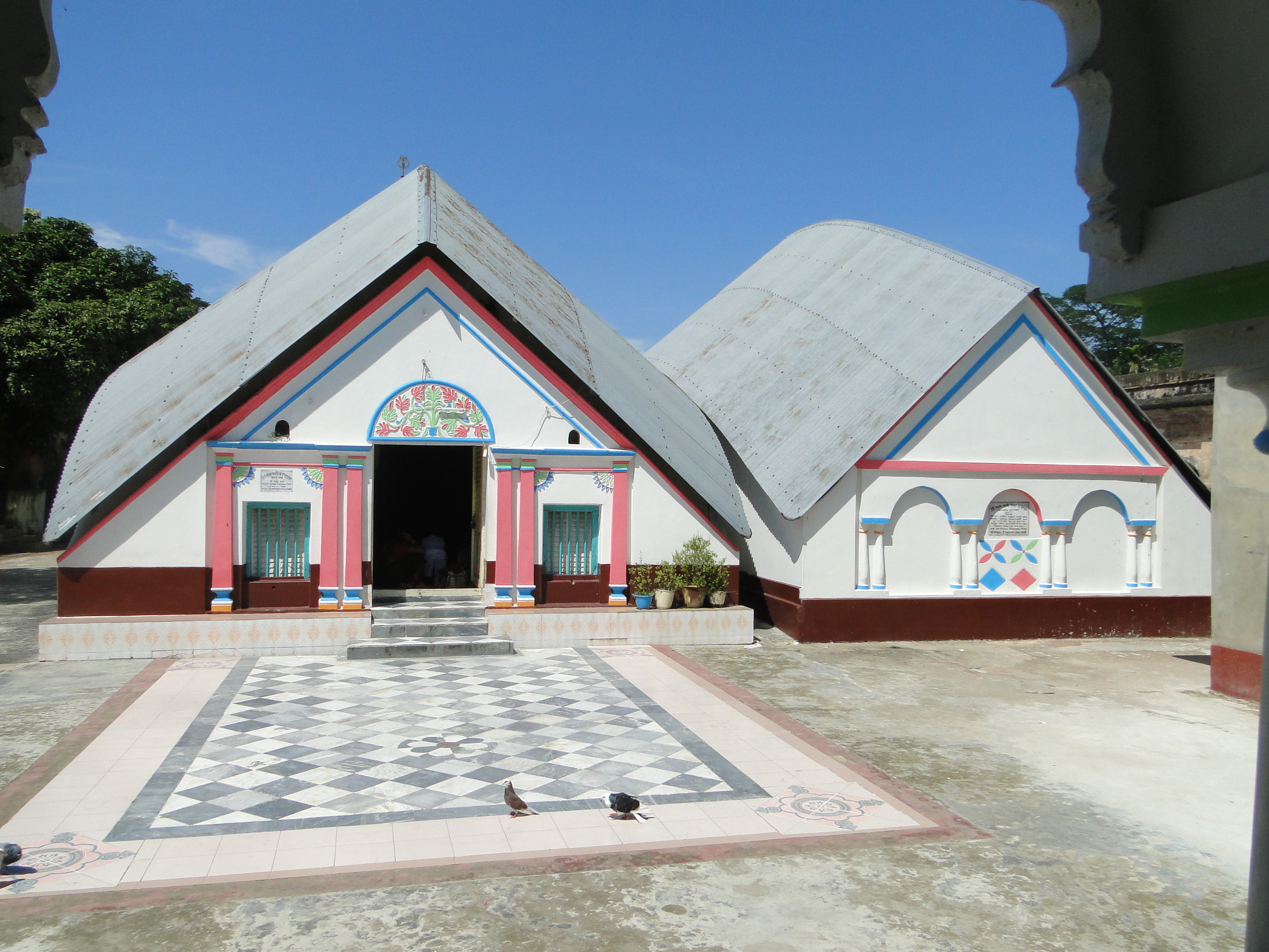 Bithangol Bora Akhra is a sacred gymnasium for the Hindu Vaishnava community located about 1 km southwest of Baniachang Sadar Upazila on the bank of the haor. Ramakrishna Goswami founded it in sixteenth century after completing his visit to different holy places of the sub-continent. There are 120 rooms for 120 Vaishnava monastics in thr Akhra. About five hundred years ago, the king of Tripura Uccabananda Bahadur built two buildings in the Akhra. A modern architectural style building has been built on the on the cemetery of the founder. On the last day of the month of Bangla month of Kartik, a hallelujah is celebrated on the occasion of 'Bhola Sankranti'. During the full moon days of Bangla month of Falgun, on the fifth day, 'Dol' festival is celebrated. During Bangla month of Chaitra, on the 8th lunar day, the devotees take holy bath in the River Vera Mohona and the 'Baruni Fair' sits on the bathing quay. Besides, 'Rath Yatra' is held in the 2nd week of the Bangla month of Ashara. In each festival, around 5 to 10 thousand devotees gather. The spectaculars of the Bithangol Akhra are a marble bedstead of 25 mound weight, a bronze throne, a chariot rich in ancient artistry, a bird made of silver and a gold crown.